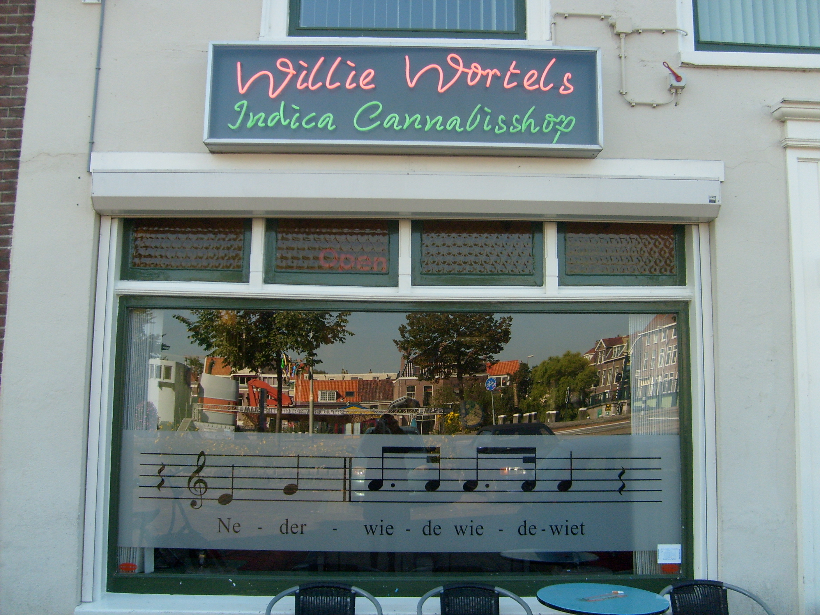 Coffeeshop, where they sell soft-drugs, Haarlem, The Netherlands